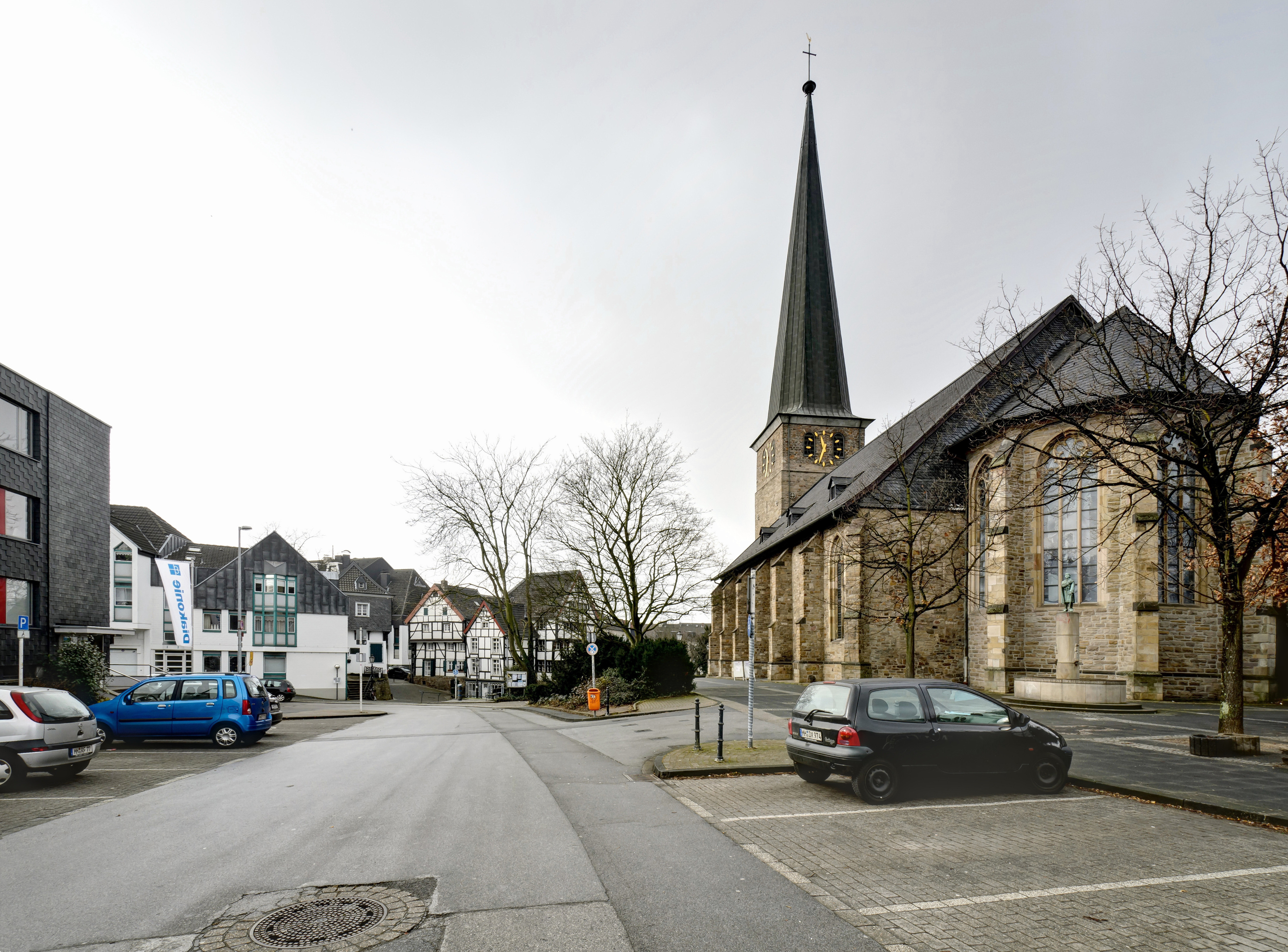 Kirchenhügel with Patrikirche, western view.